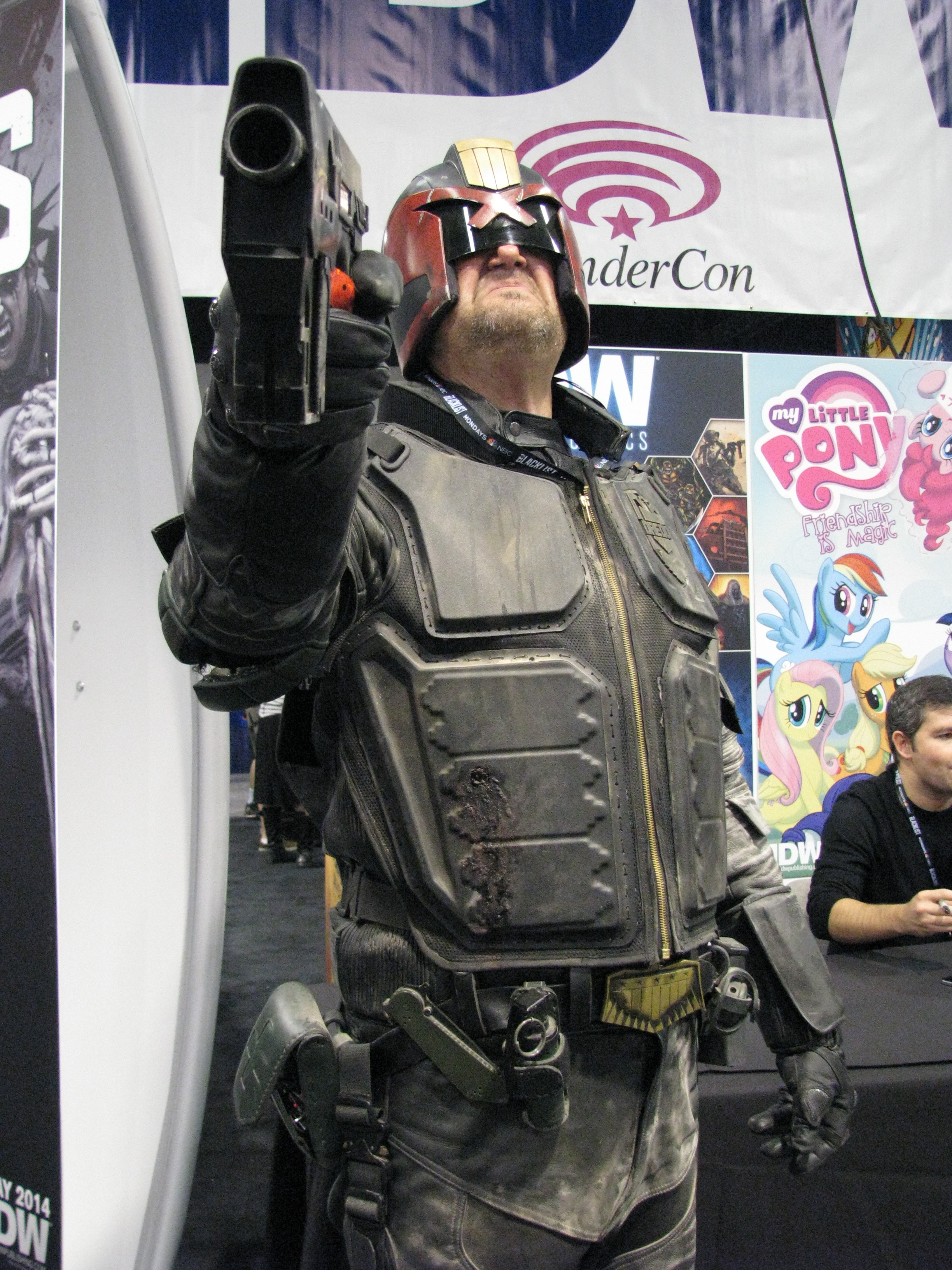 WonderCon 2014 - Judge Dredd